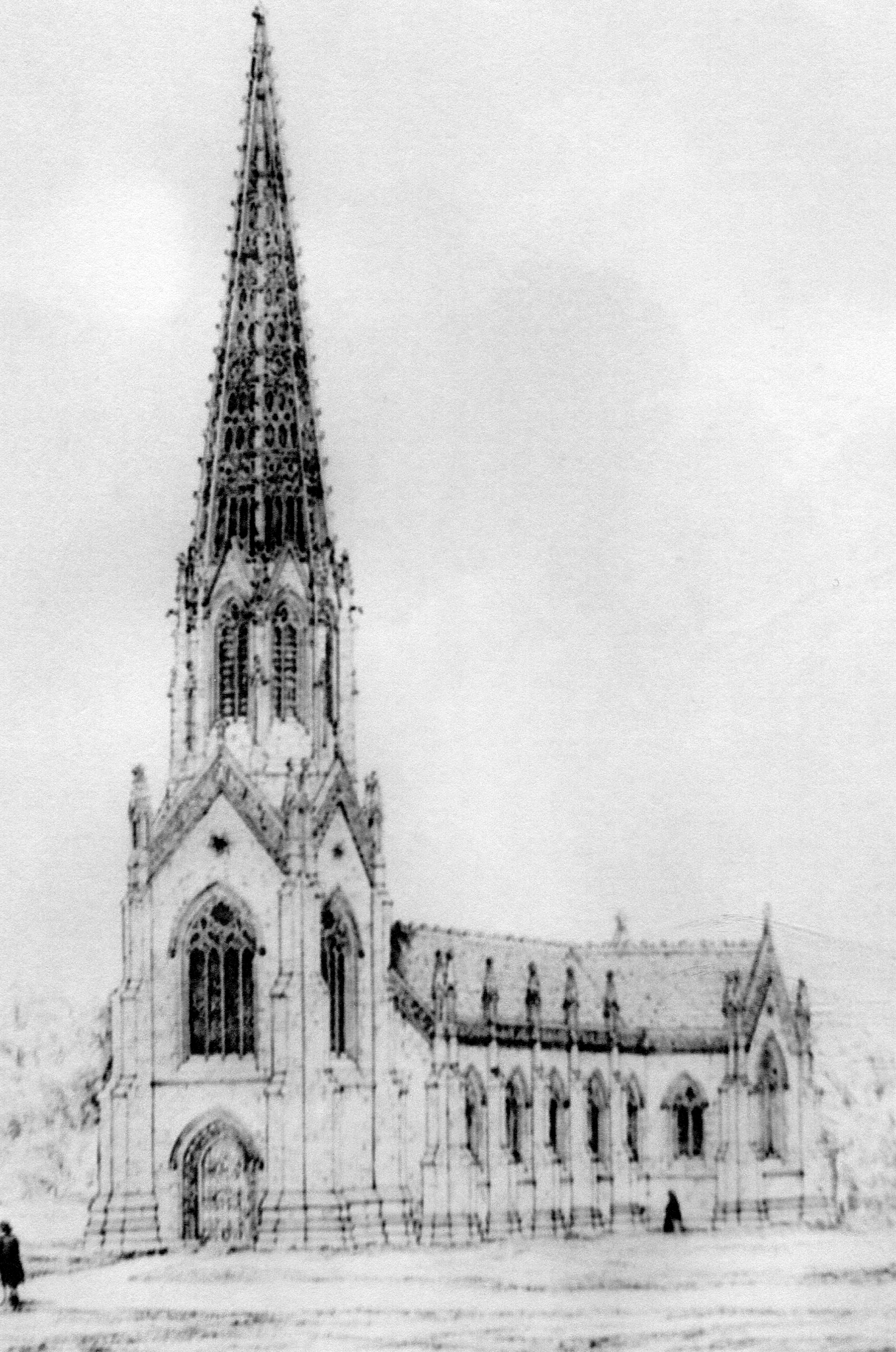 Architect's drawing of St Stephen and All Martyr's Church, Lever Bridge